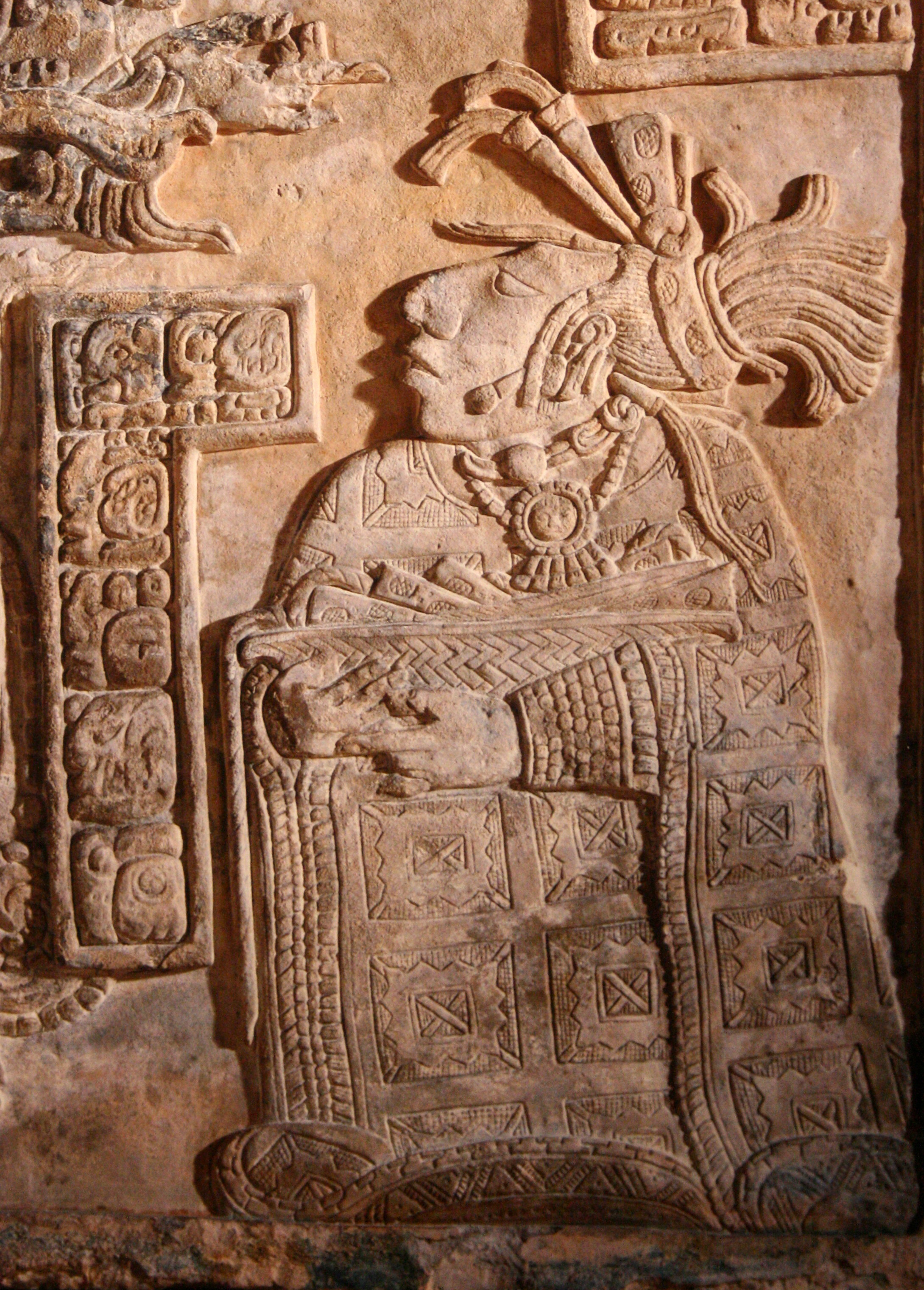 Maya site of Yaxchilan, Mexico, Late Classice Period. Lintel 15 of Structure 21 depicting Lady Wak Tuun, one of the wives of king Bird-Jaguar IV, during a bloodletting rite (detail). British Museum